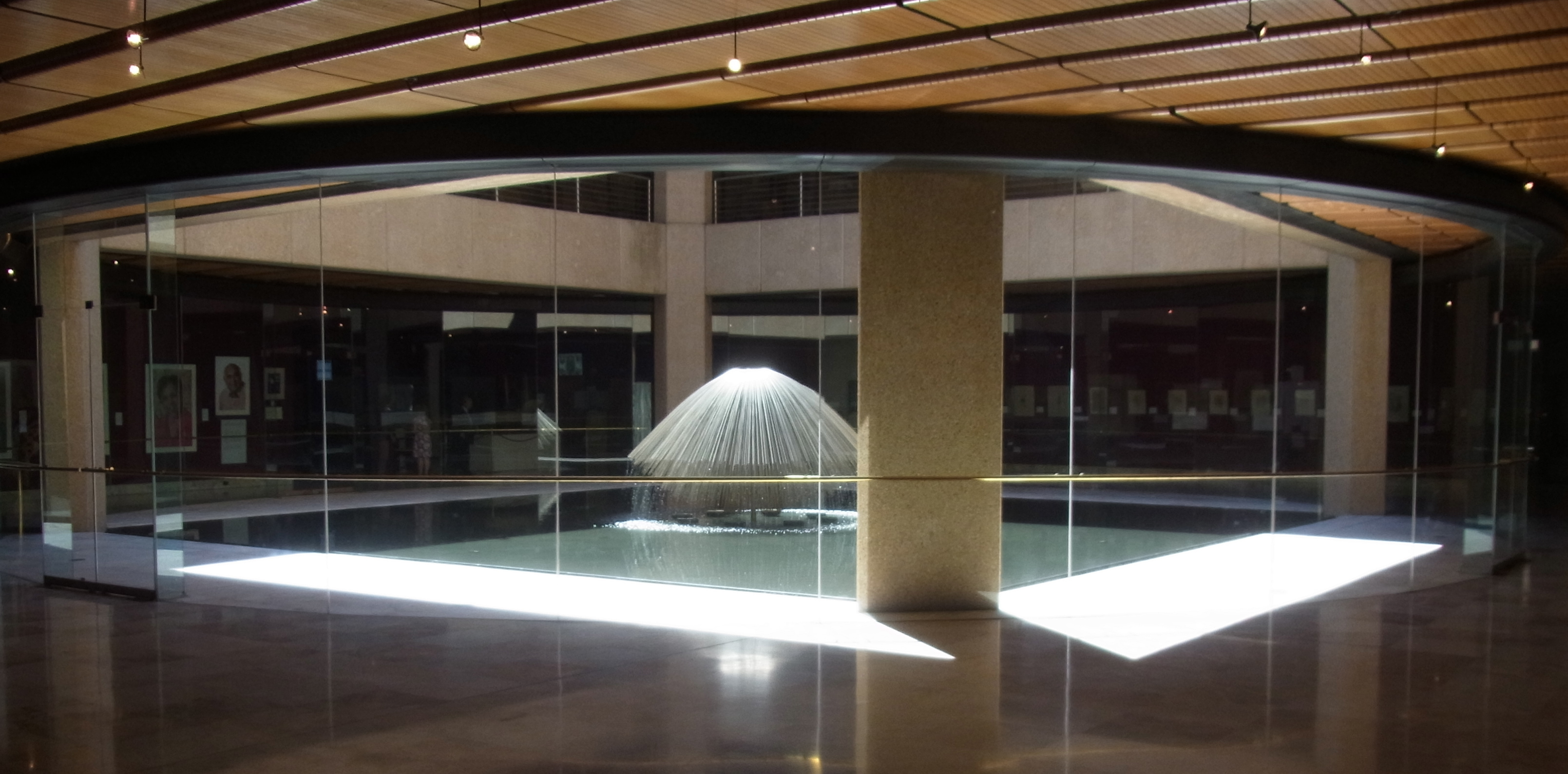 Parliament House, Sydney: public lobby with fountain and pool